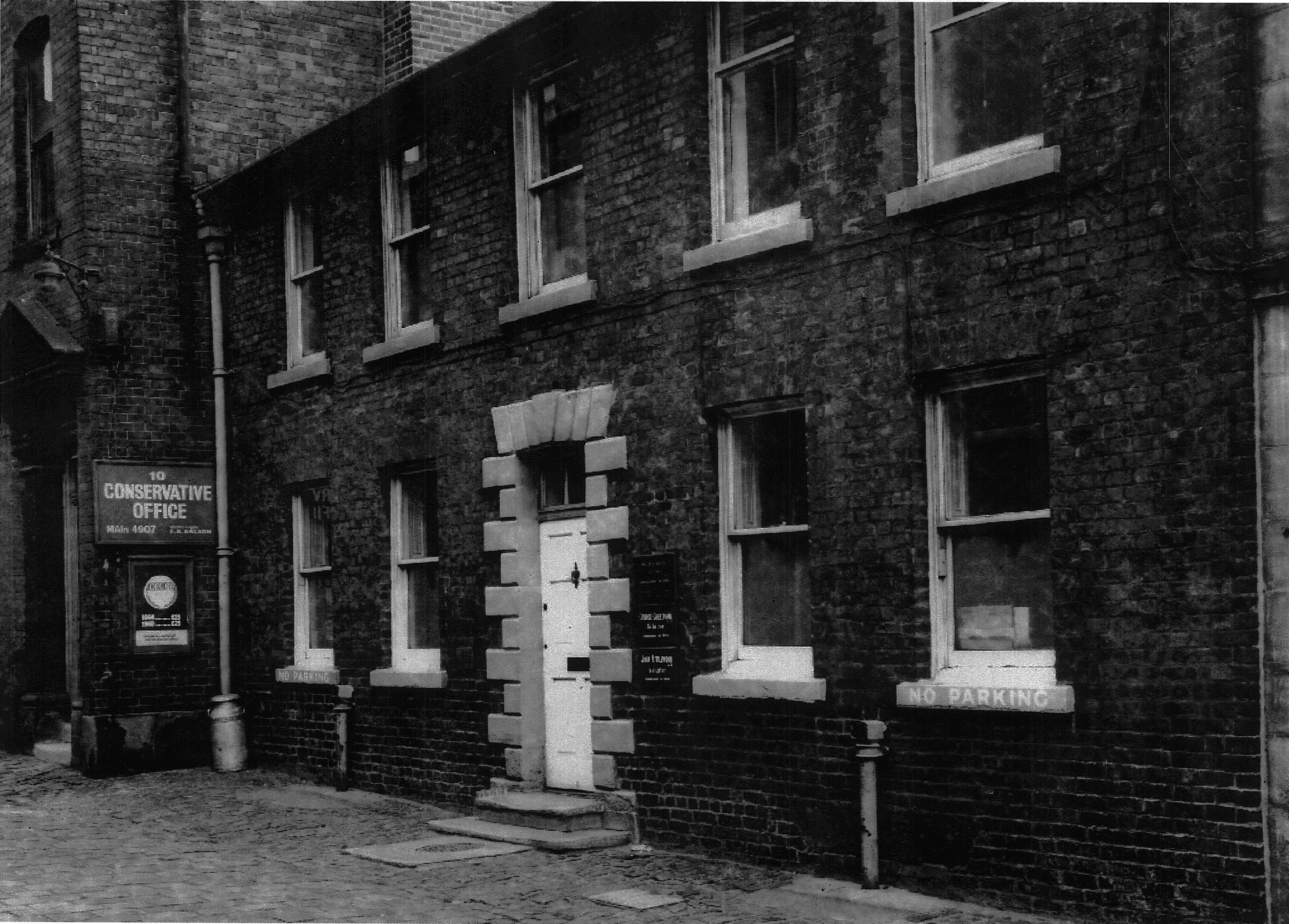 A photo taken of Church Lane in about 1940